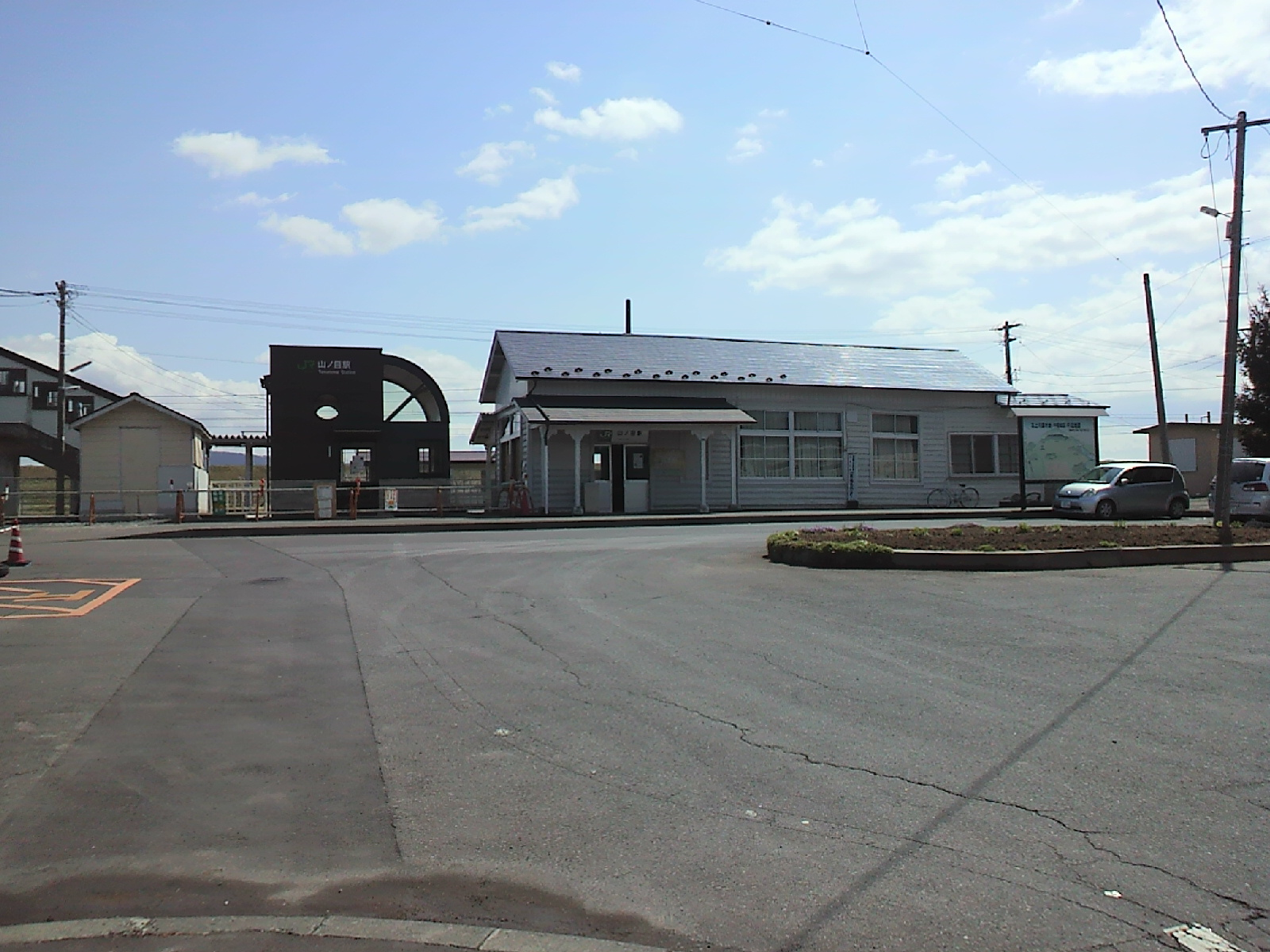 Yamanome Station building under construction, left, and the old building, right